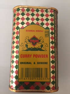 Curry powder.